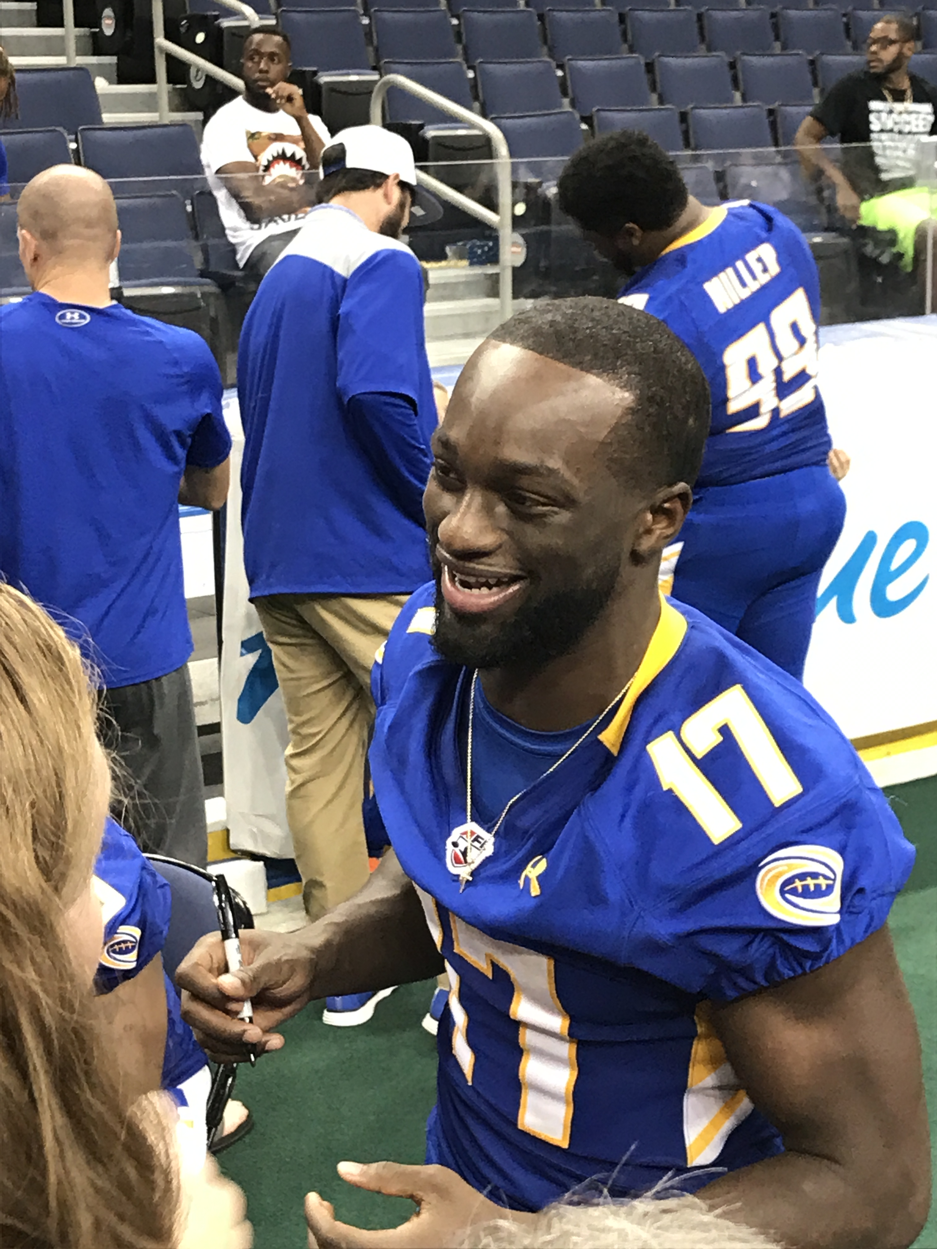 Kendrick Ings postgame